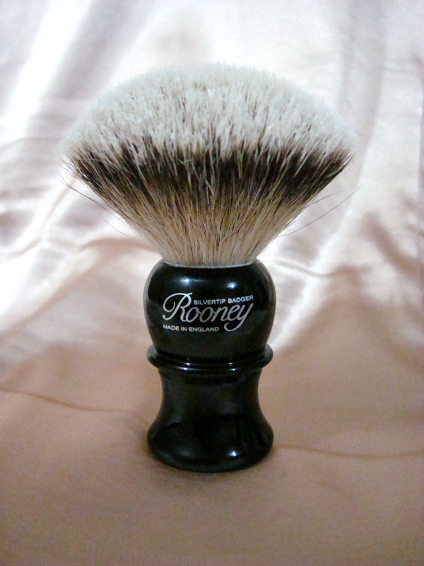 Rooney shaving brush